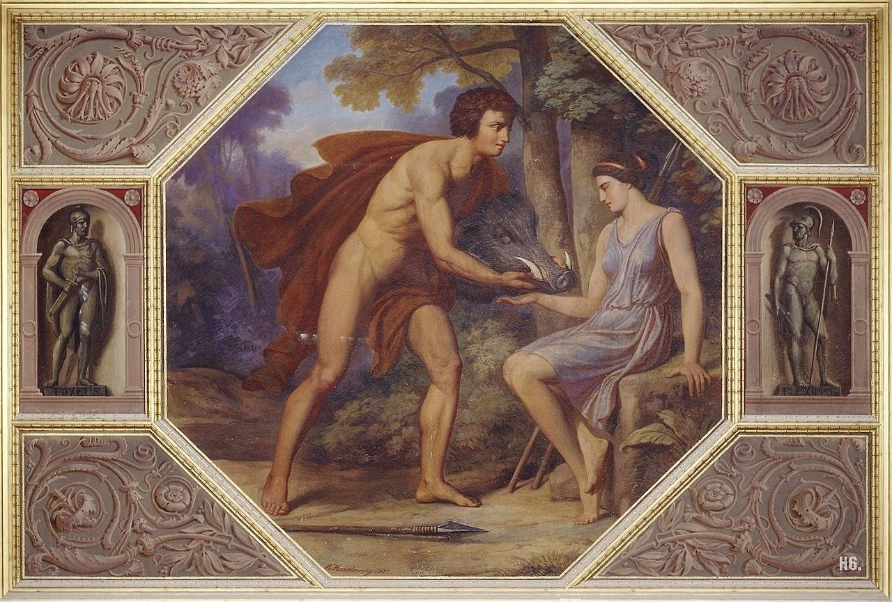 August Theodor Kaselowsky - Meleager presents Atalante the head of the Calydonian boar August Theodor Kaselowsky, Neues Museum